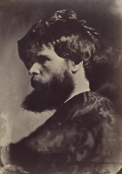 Portrait of William Frederick Yeames